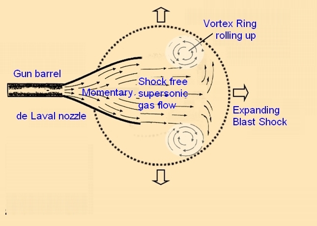 Optimum vortex ring forms by supersonic jet stream collision with a receding spherical blast shockwave